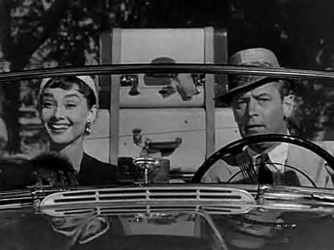 Screenshot of Audrey Hepburn and William Holden from the trailer for the film Sabrina (1954 film)